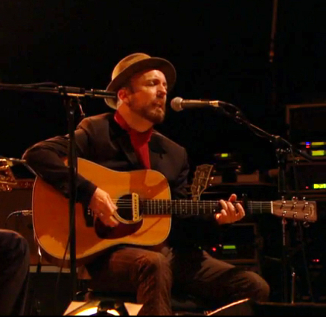 David Watson performing at Royal Festival Hall in London on 3rd December 2013